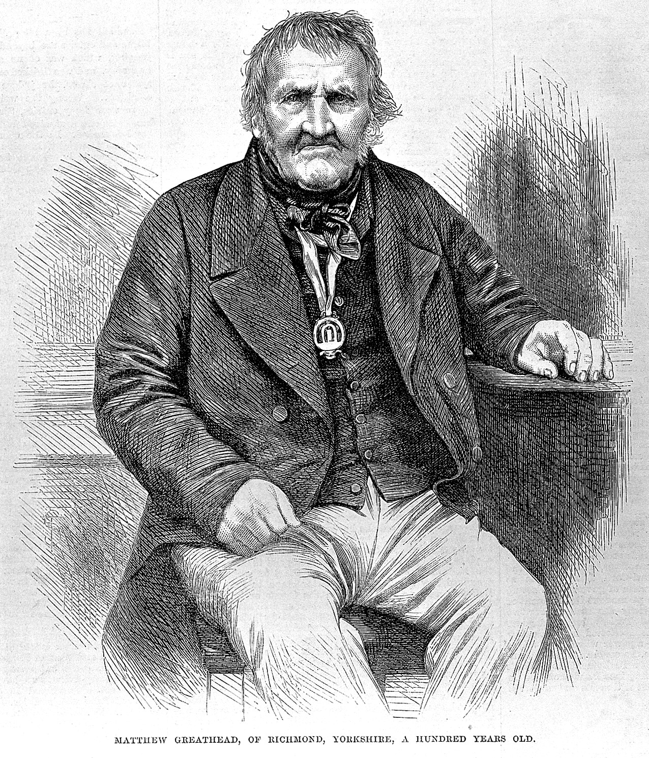 Matthew Greathead of Richmond, Yorkshire. 100 years old. General Collections Keywords: Longevity